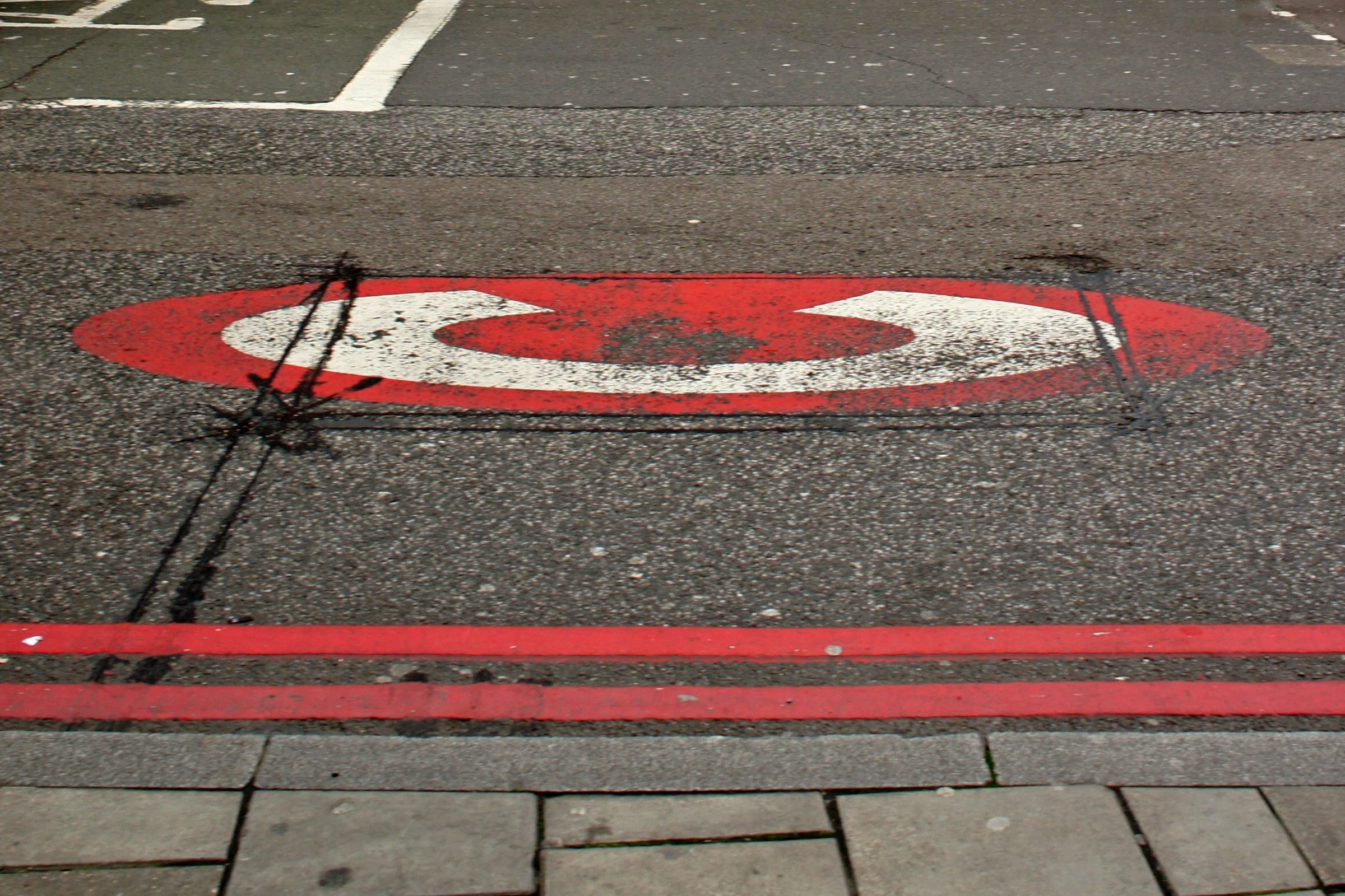 Entrance to the London Congestion Charge zone. The pavement marking has a magnetic loop sensor to feed the CCTV used to control vehicles entering the zone's boundary.